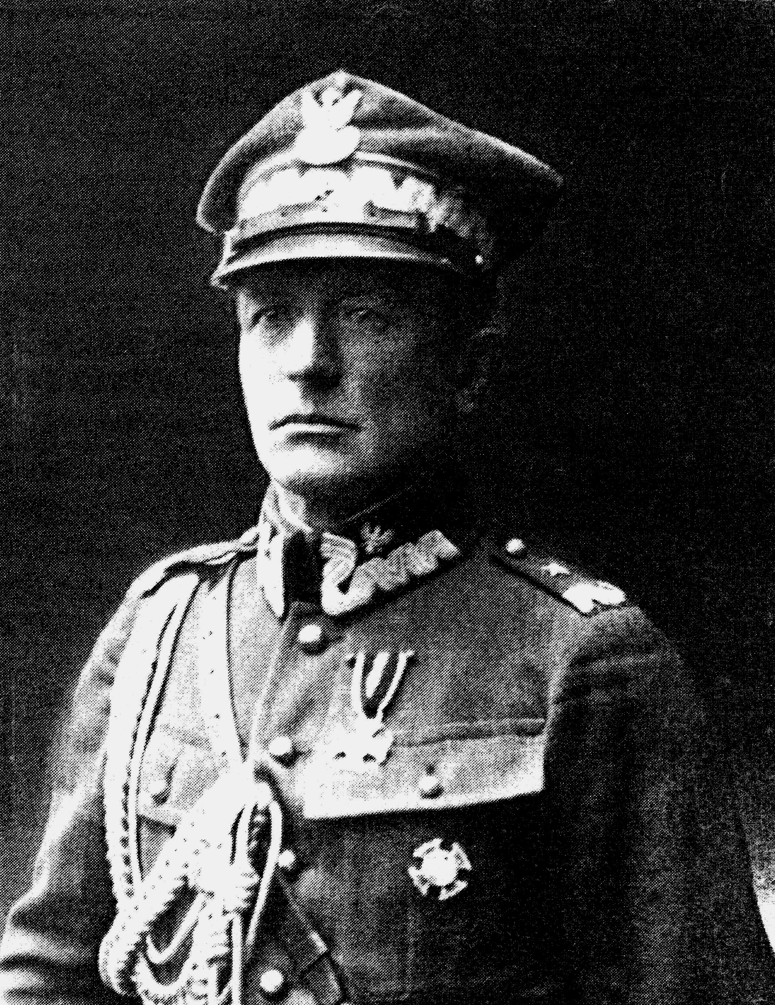 Portrait of general Franciszek Ksawery Latinik